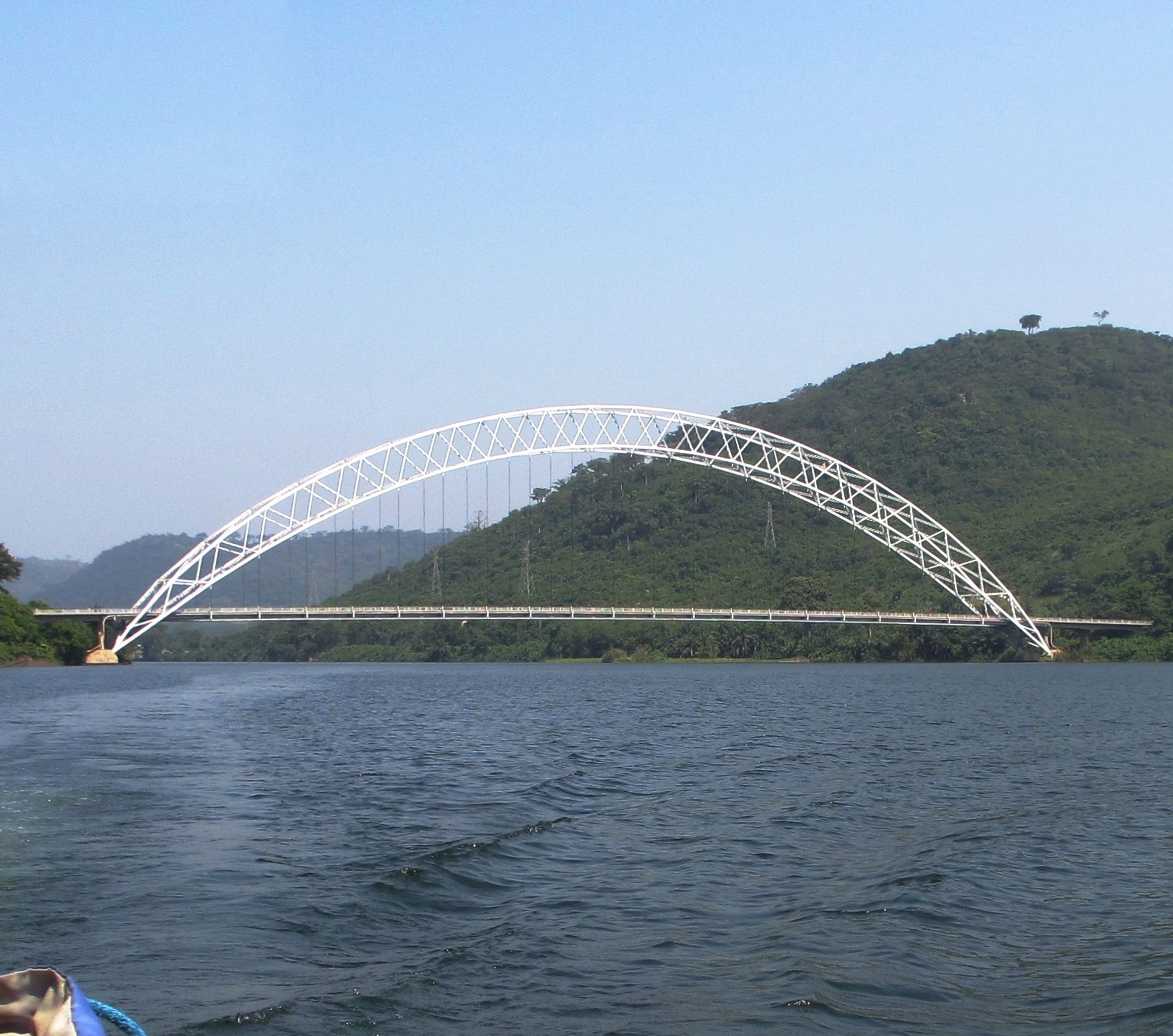 Bridge leaving Volta region heading to Accra